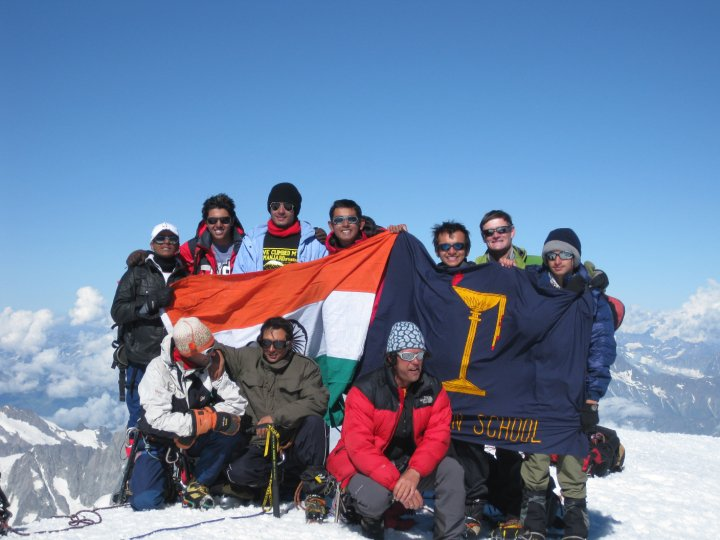 Doon School's mountaineering expedition to Mont Blanc, Alps